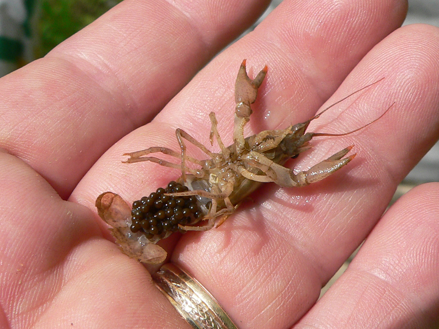 Female crayfish with eggs - taken near Oxford, Ohio.